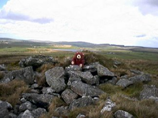 Cairn on Brown Gelly. Bronze age Cairn on top of Brown Gelly - Dozmary Pool can just be seen behind Barnaby Bear's head!